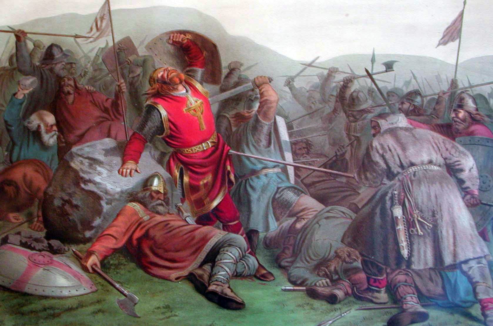 Tore Hund, at right, spears Olaf at the battle of Stiklestad